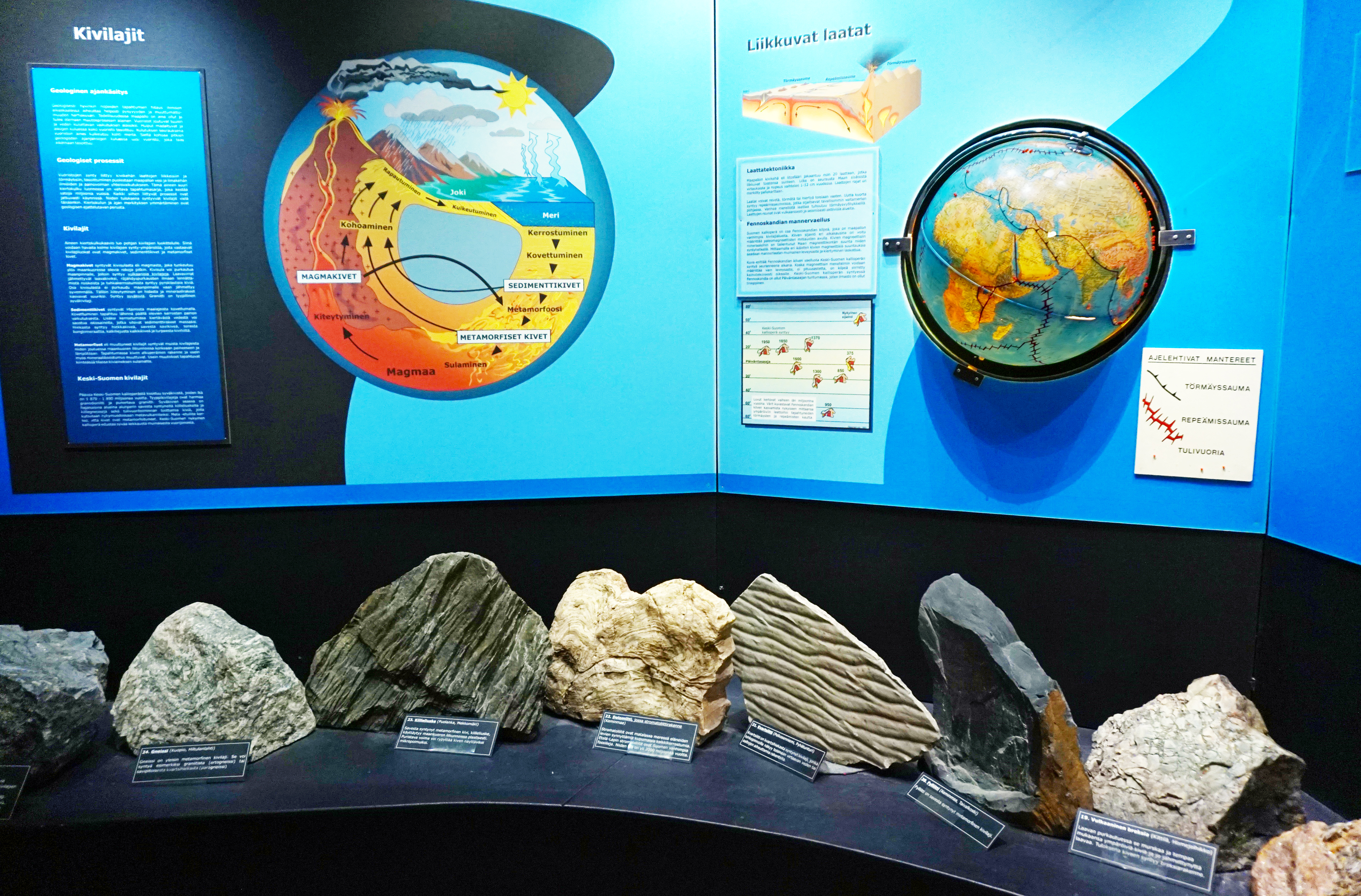 Natural History Museum of Central Finland, Jyväskylä.This photograph was taken with a Sony ILCE-5000